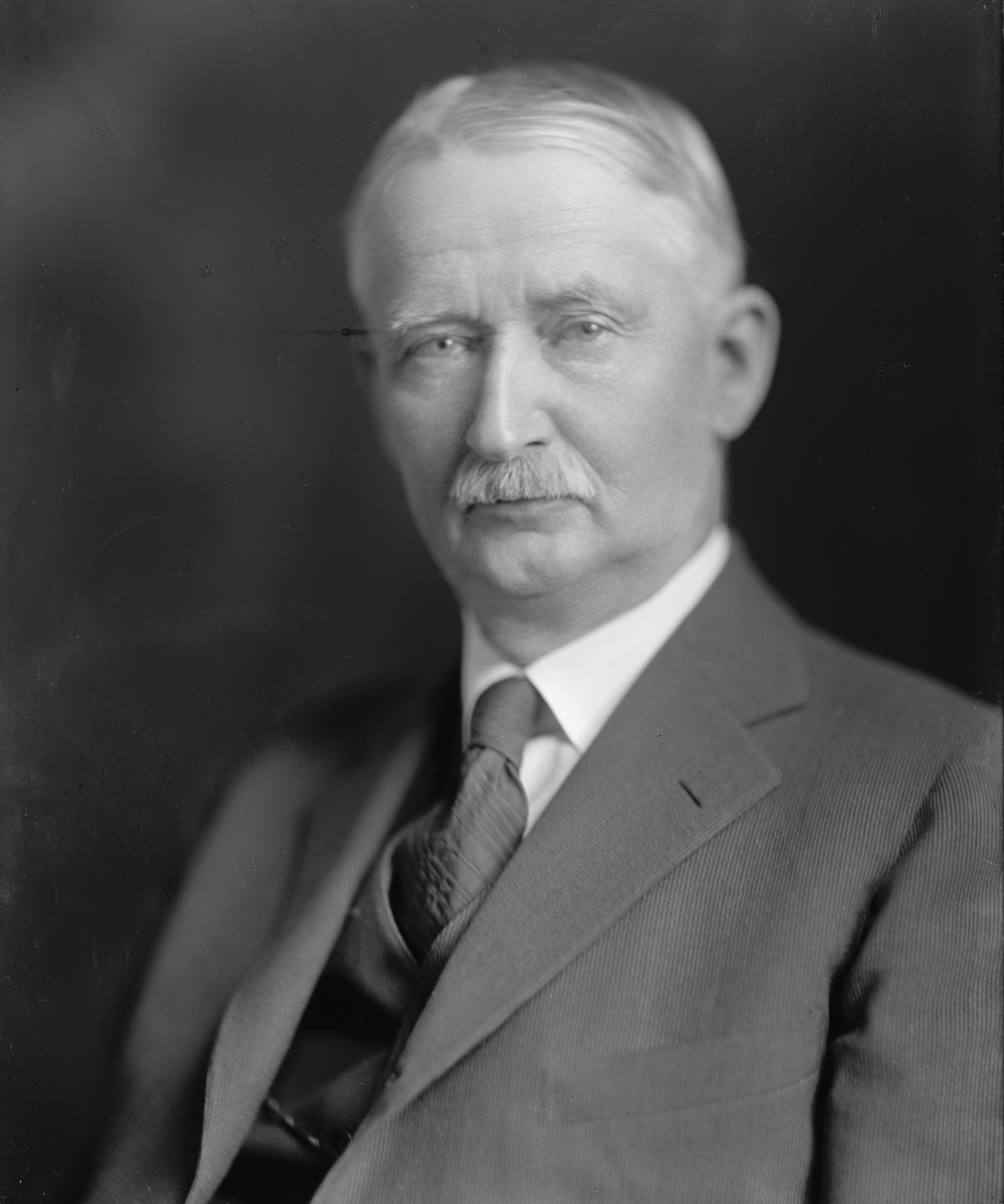 Title: SEARS, WILLIS G., HONORABLE Abstract/medium: 1 negative : glass ; 8 x 10 in. or smaller